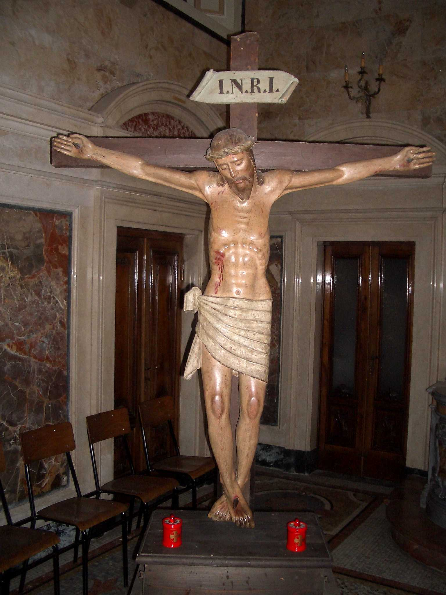 Unknown master XVI century, crucifixion, wooden sculpure, chiesa di San Bartolomeo, Trino, vercelli, Italy